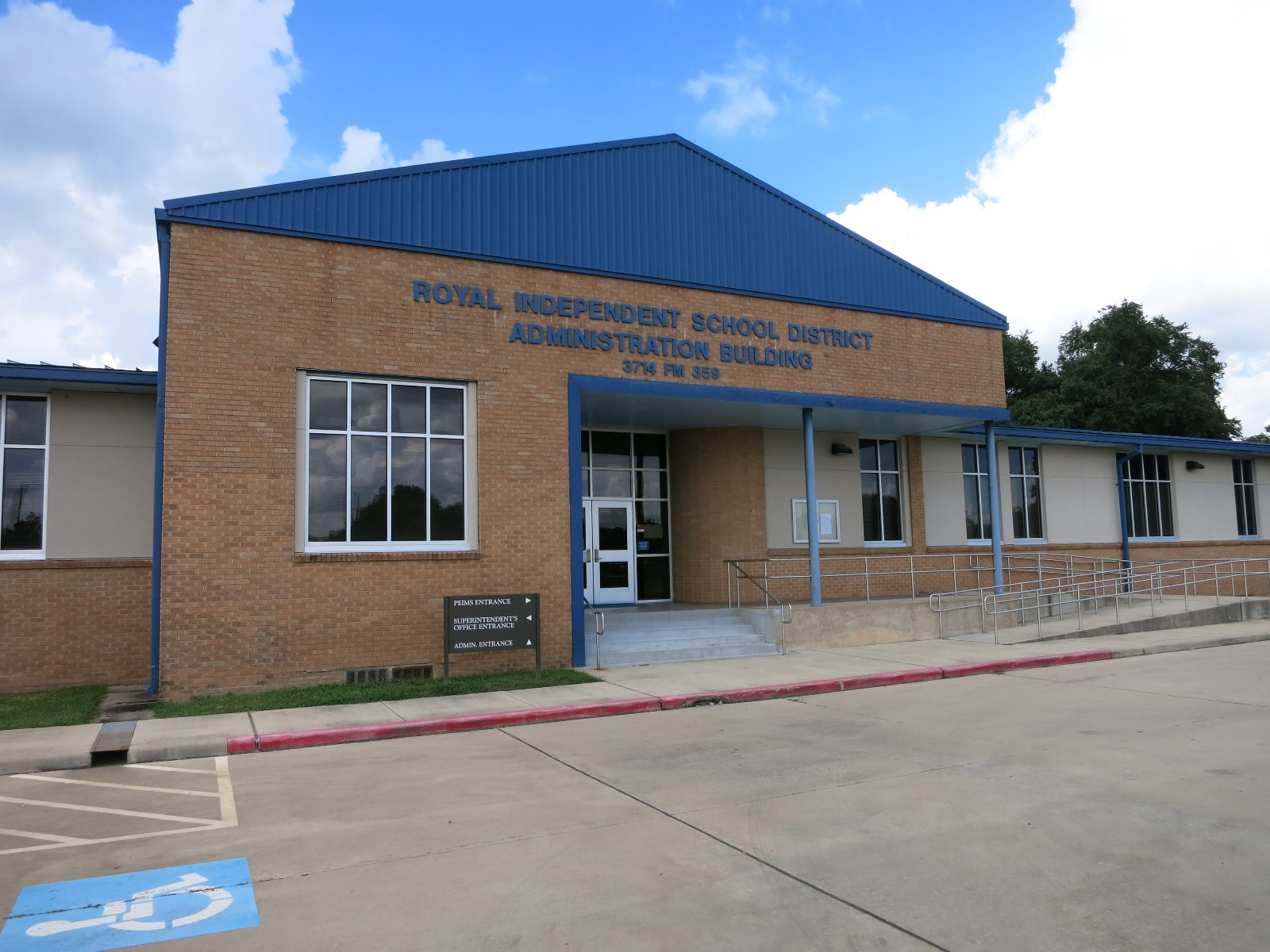 Photo shows the Royal Independent School District Administration Building at 3714 FM 359 in Pattison, Texas. The view is to the northeast.